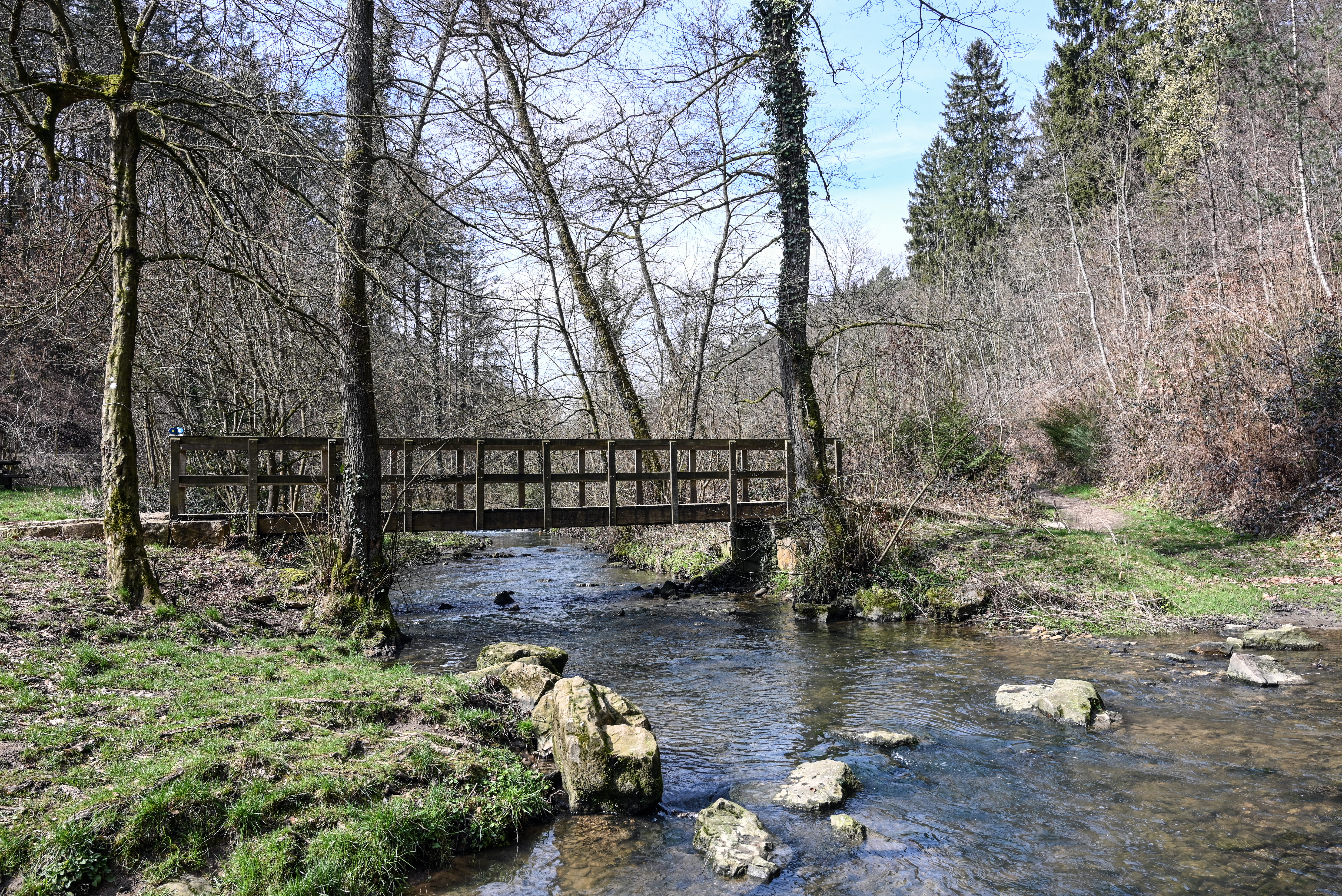 The brook Kielbaach at the lieu-dit Drëps in Mamer, Luxembourg.